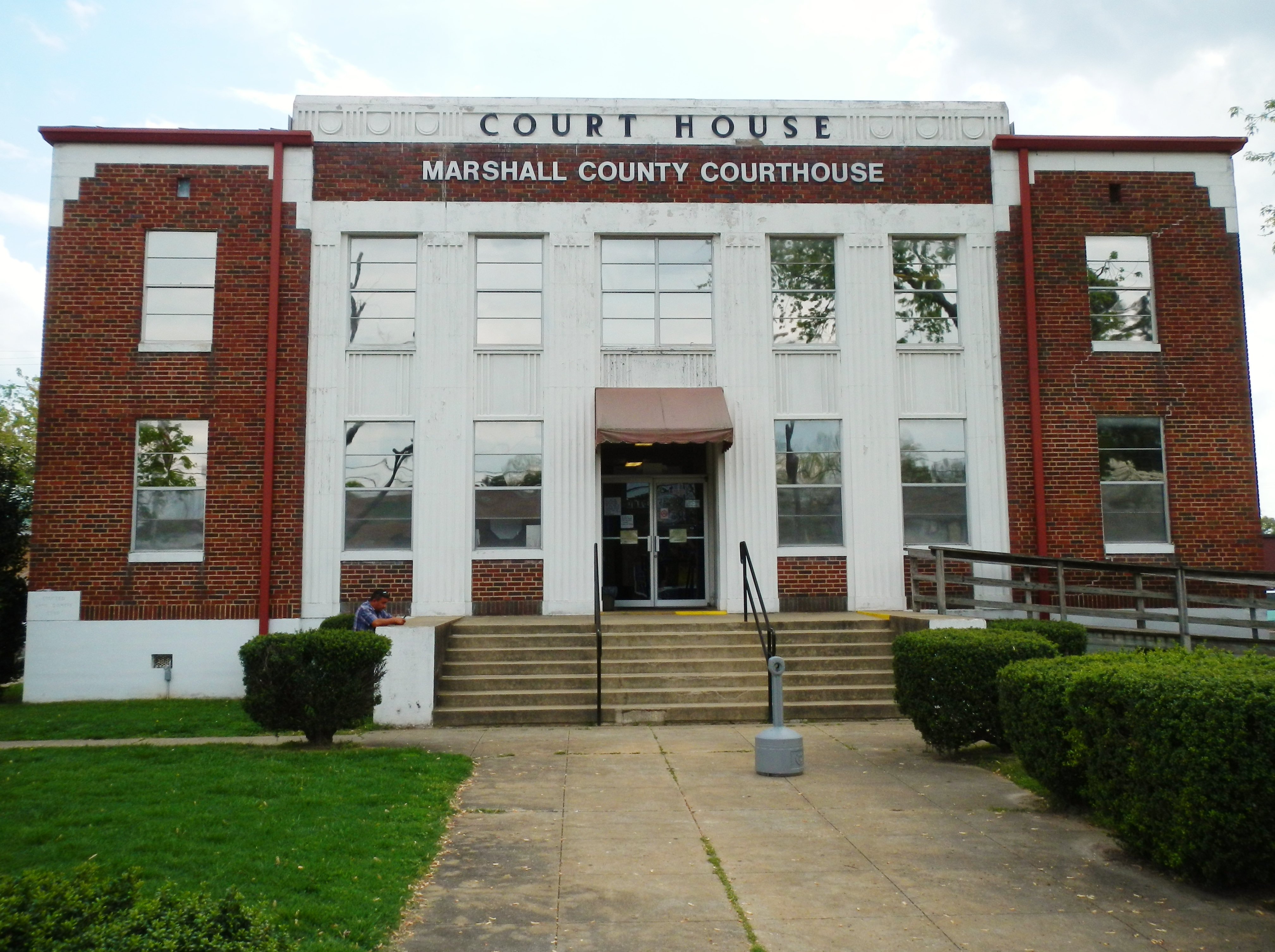 This is a photograph of the Marshall County Courthouse in Albertville, Alabama.